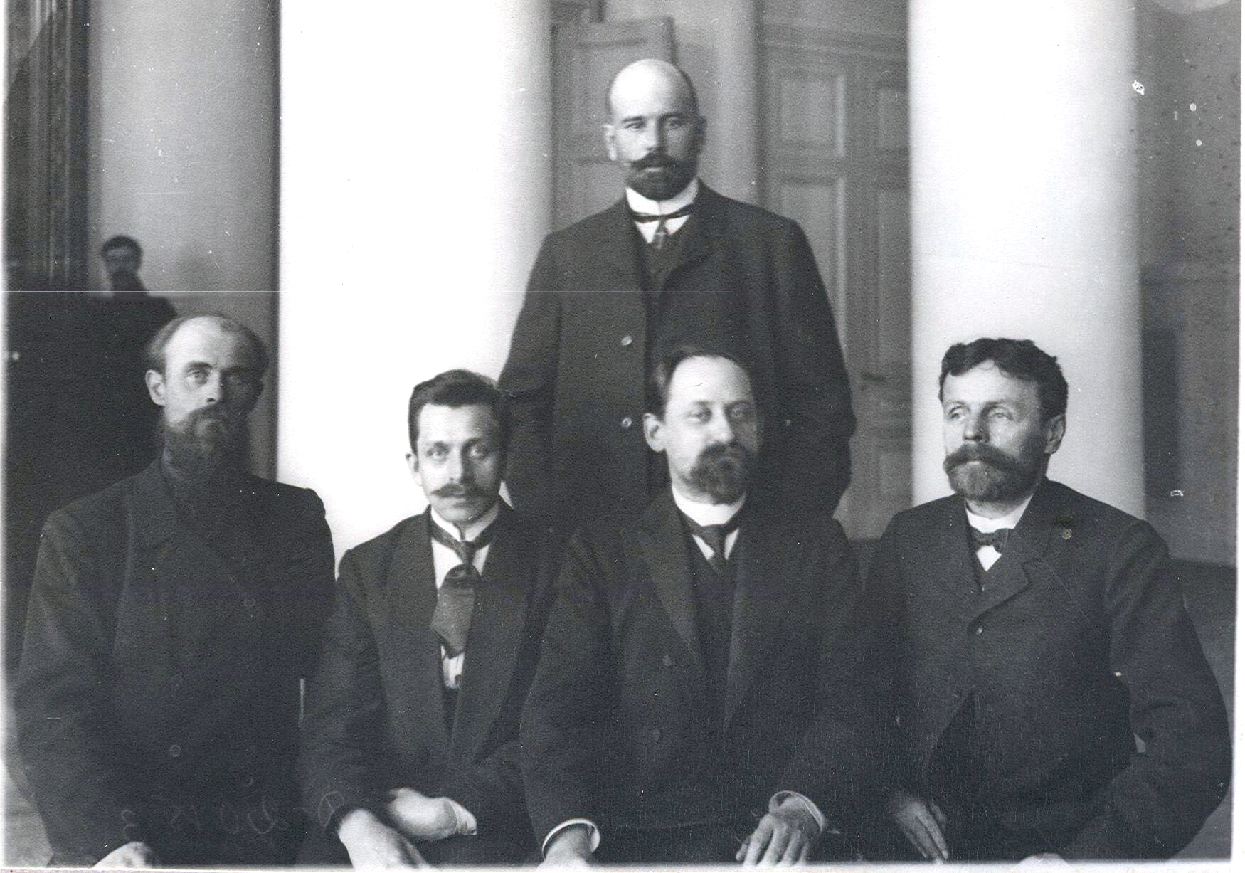 The members of the second Russian State Duma from Yaroslavskaya Governorate, 1907.